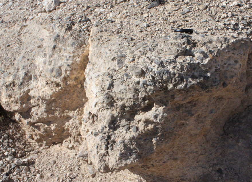 Fault breccia of the Keystone Thrust, Red Rock Canyon National Conservation Area, Nevada. Lens cap at upper right is 5.8 cm across. Exposed along spur of Keystone Thrust Trail. Taken Jan 19, 2009.